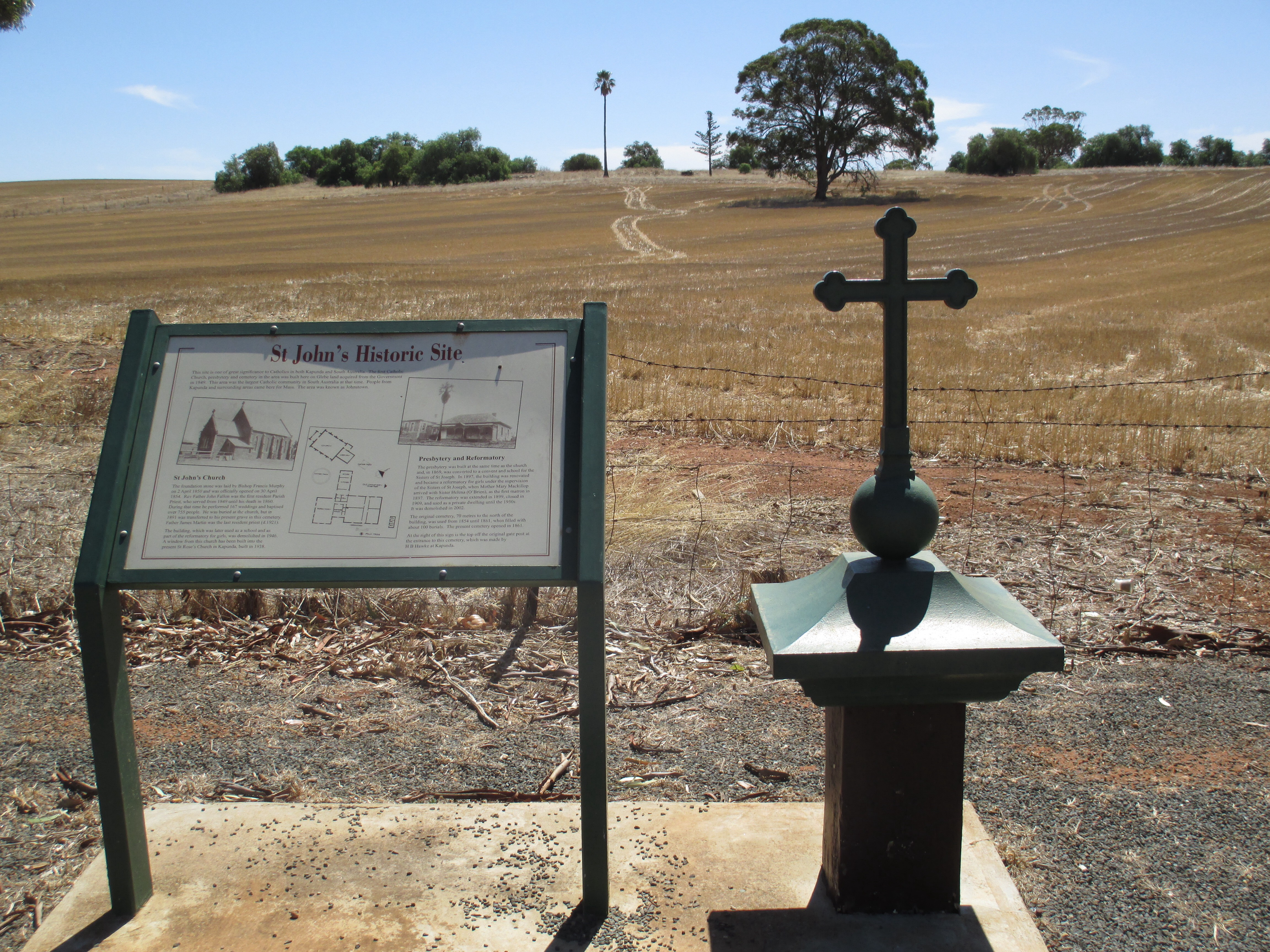 View from the cemetery at towards the site of the former church and girls reformatory